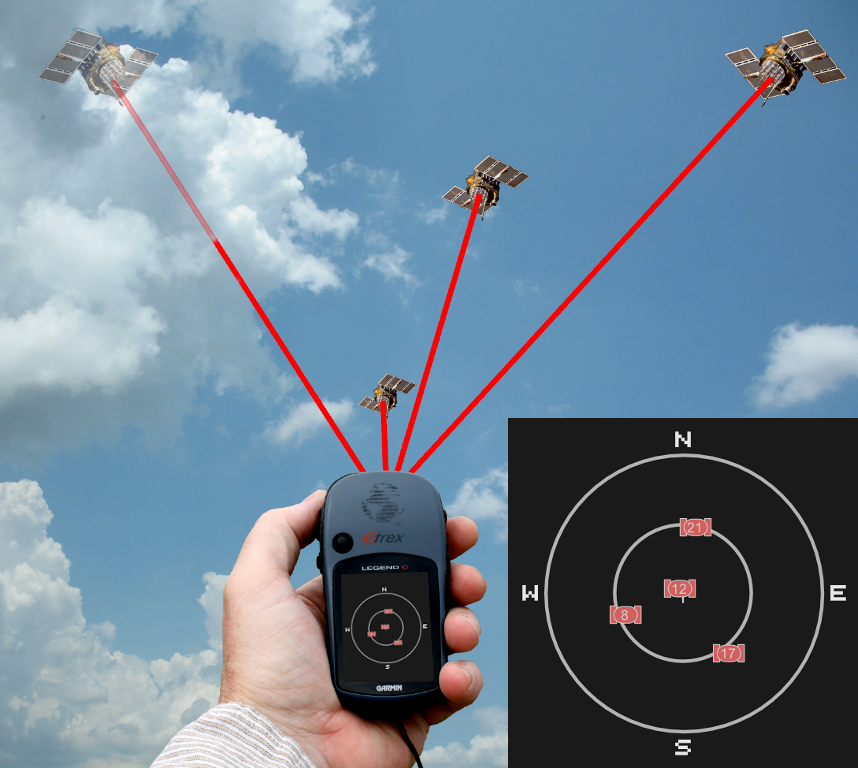 GPS satellites good geometry for Global Dillution of Precision (GDOP).